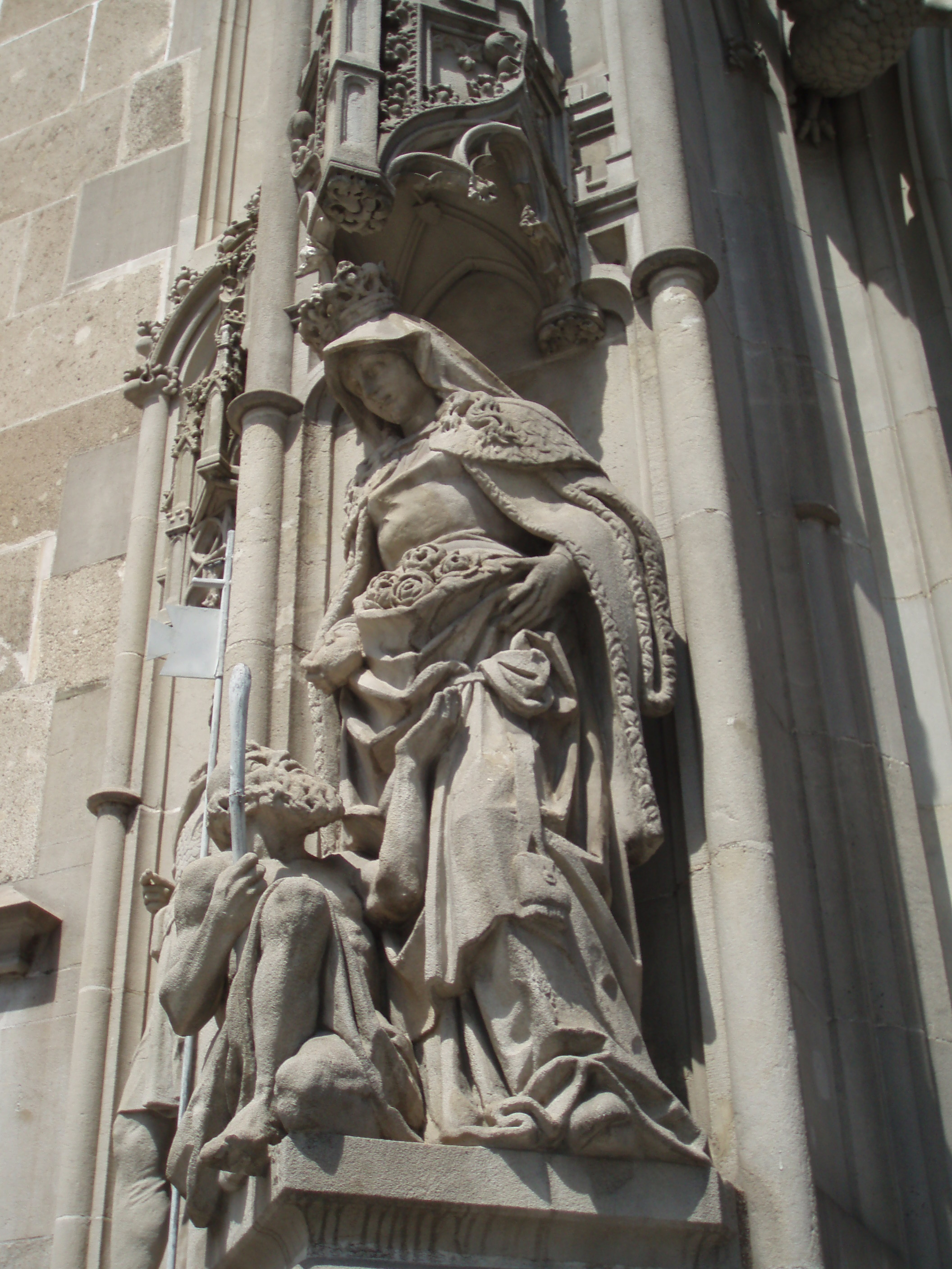 St.Elisabeth, neogothic sculpture, St.Elisabeth Cathedral Košice